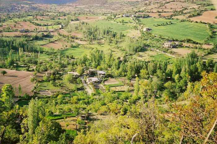 View of Görmeli. Original text: it is a personal photo.